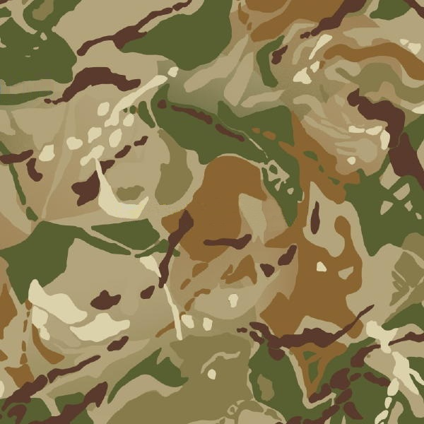 New Hungarian military clothing camouflage pattern